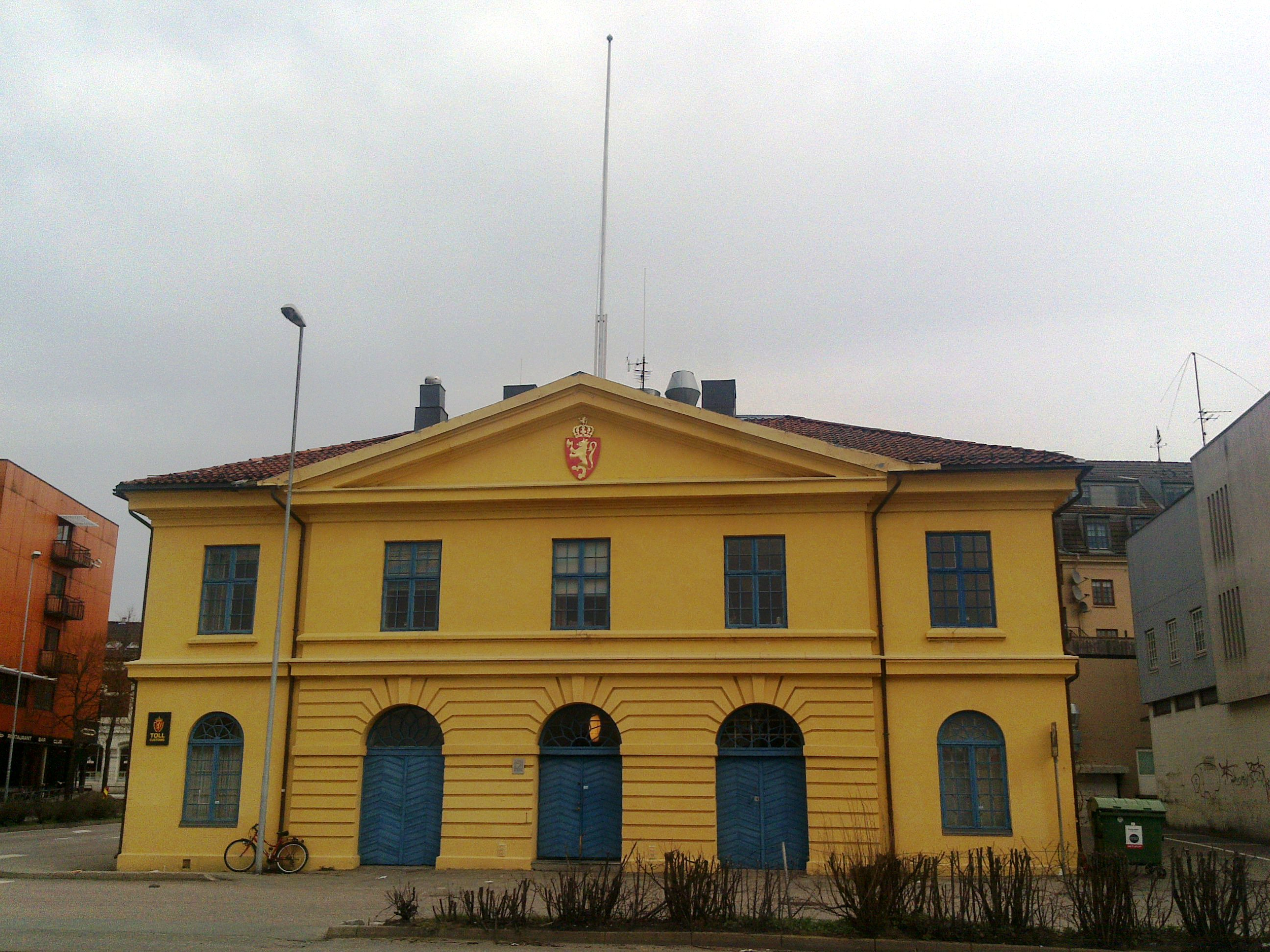 Kristiansand Customs House, Kristiansand (Norway)